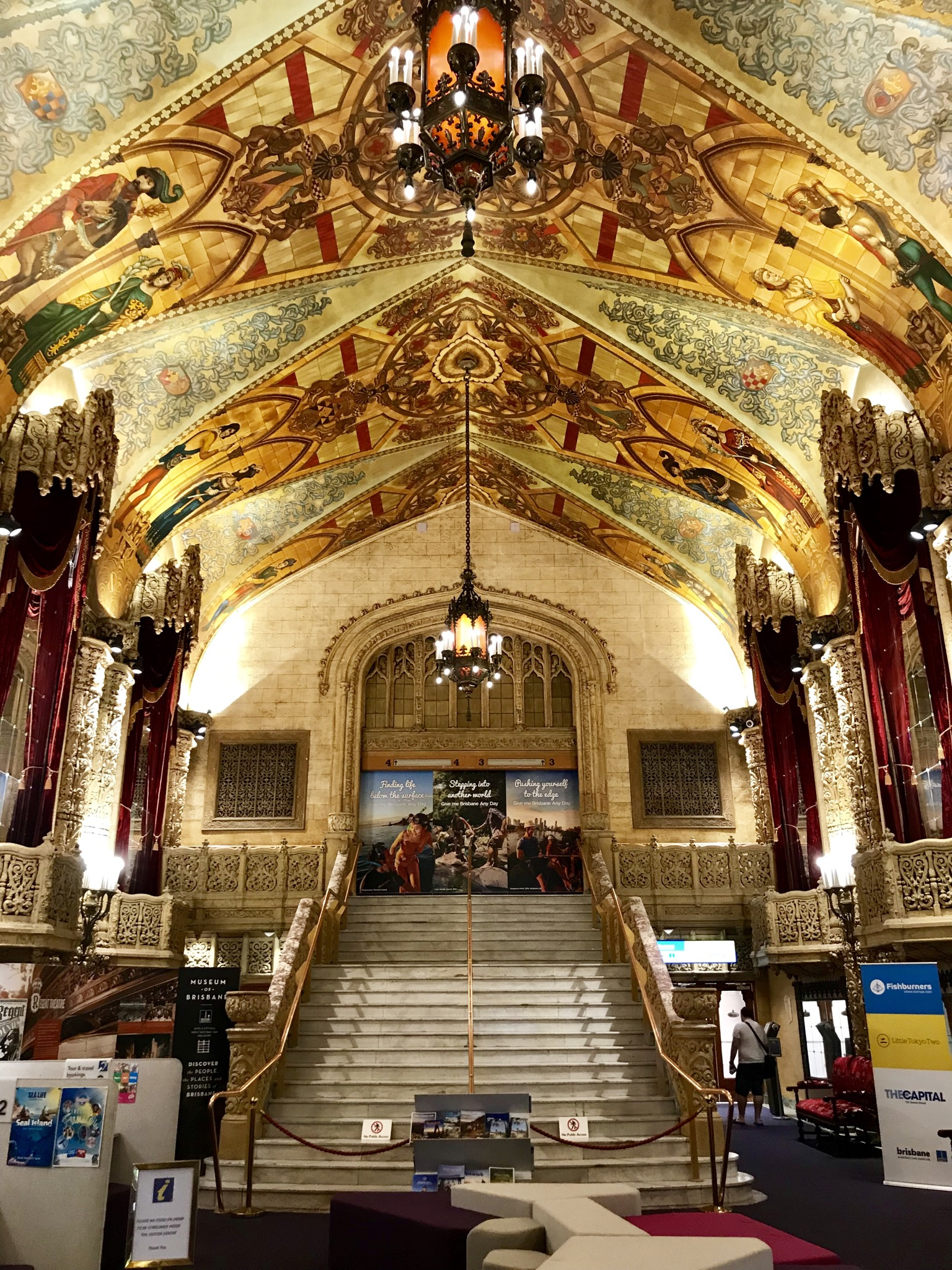 Regent Theatre Foyer, Brisbane, Queensland